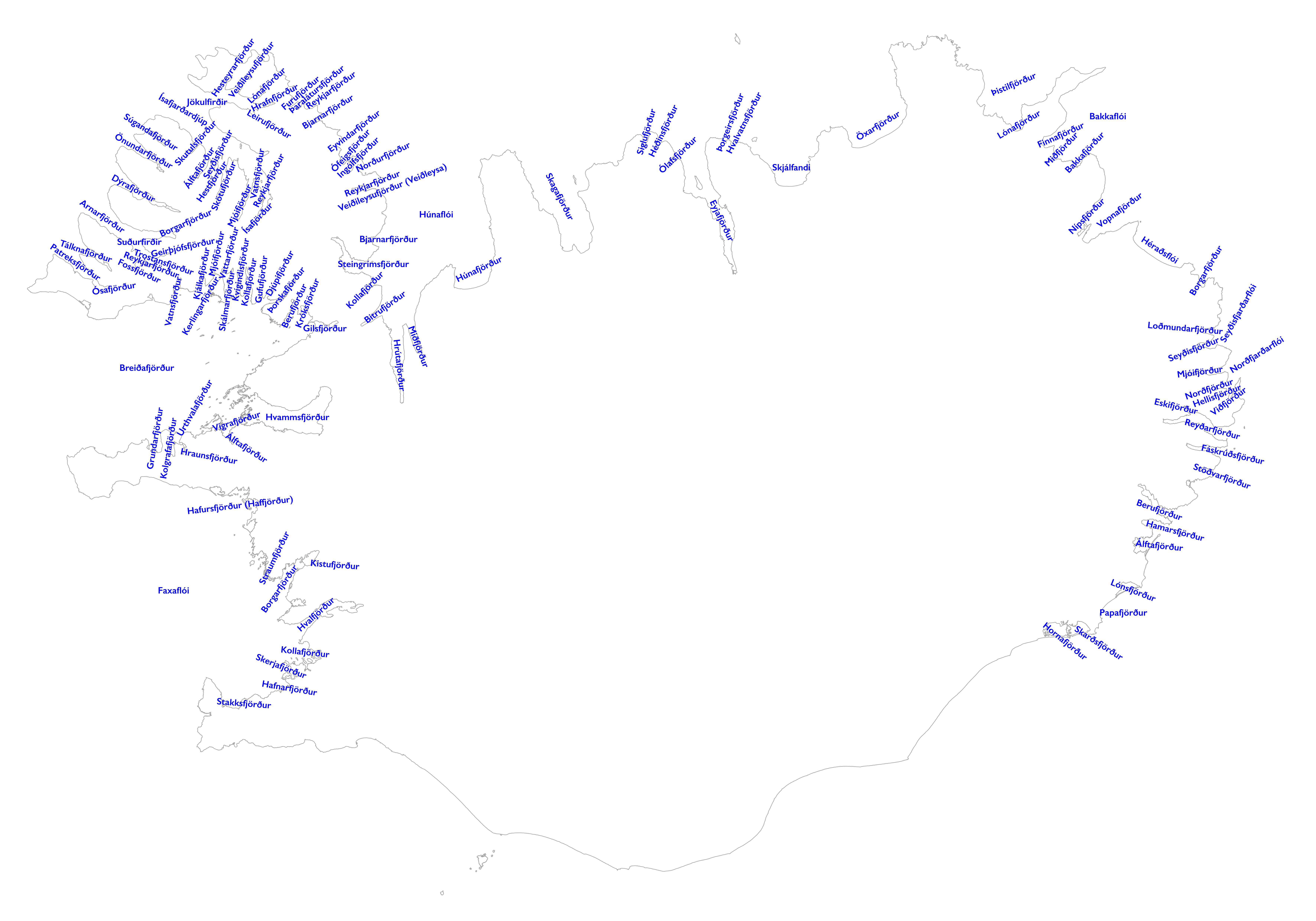 A map with all fjords and bays ("flói") of Iceland.